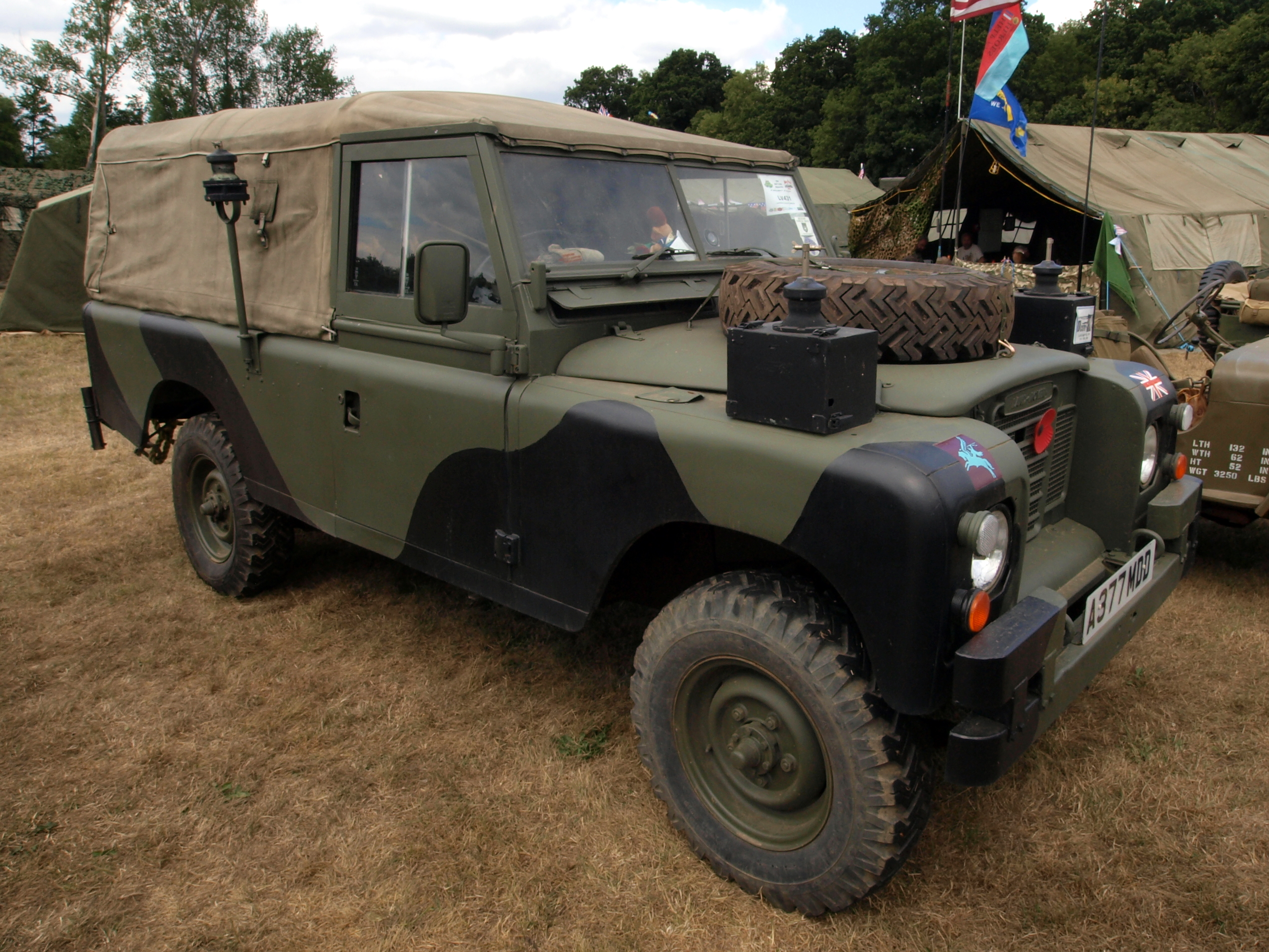 Land Rover, licence registration 'A377MDD'.